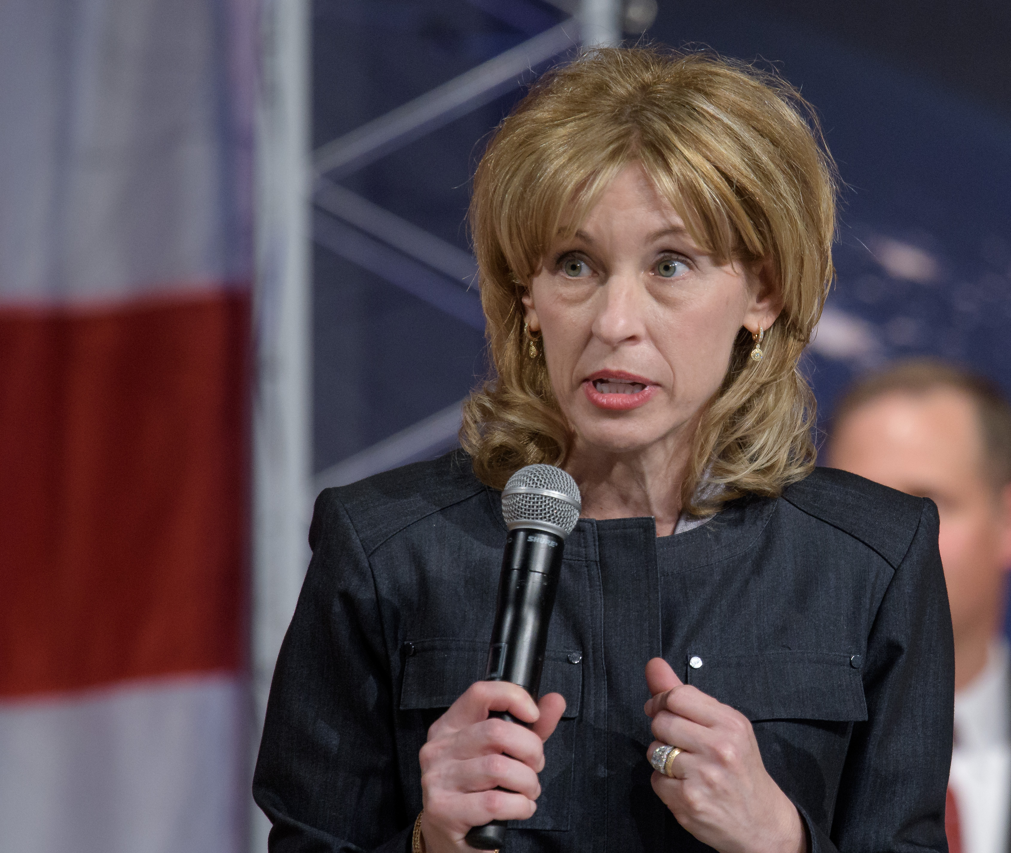 Boeing Defense, Space and Security President and CEO Leanne Caret gives remarks during a NASA event announcing the astronauts assigned to crew the first flight tests and missions of the Boeing CST-100 Starliner and SpaceX Crew Dragon, Friday, Aug. 3, 2018 at NASA’s Johnson Space Center in Houston, Texas. Photo Credit: (NASA/Bill Ingalls) NASA image use policy.